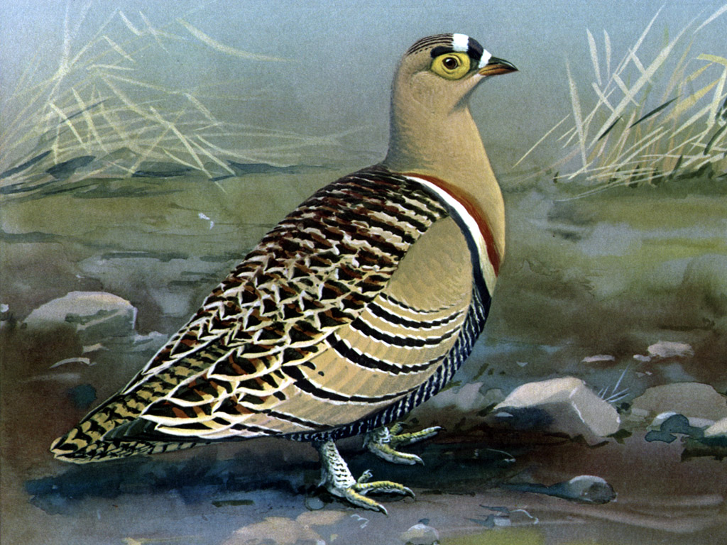 Four-banded Sandgrouse, Pterocles quadricinctus, offset reproduction of watercolor